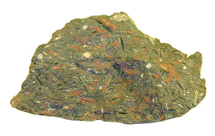 Siim Sepp, 2005 Diameter of rock sample is app. 10 cm. Rock name is tinguaite (variety of phonolite) and it is from Sweden.